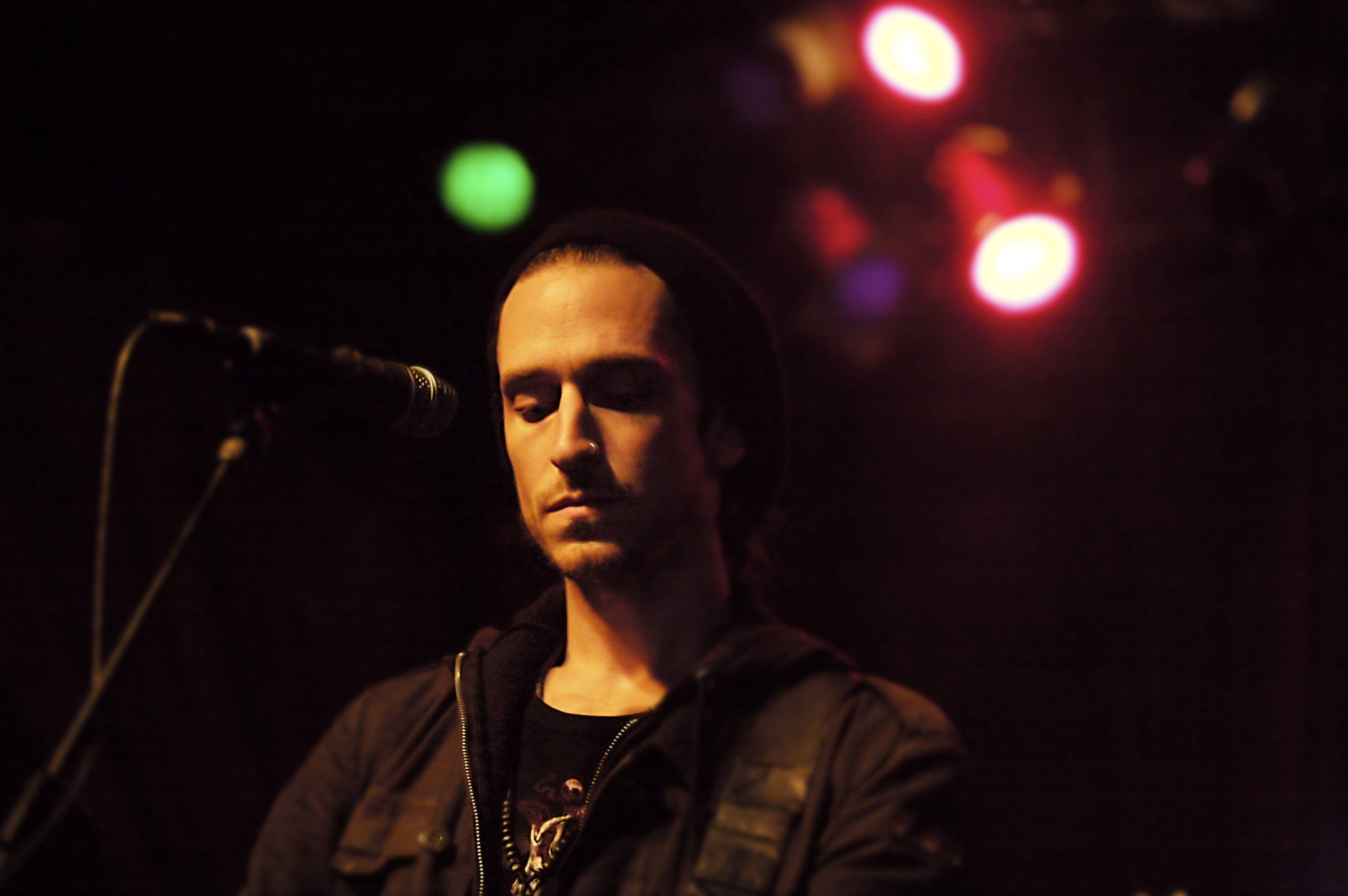 Jimmy Gnecco performing at Exit/In in Nashville, Tennessee